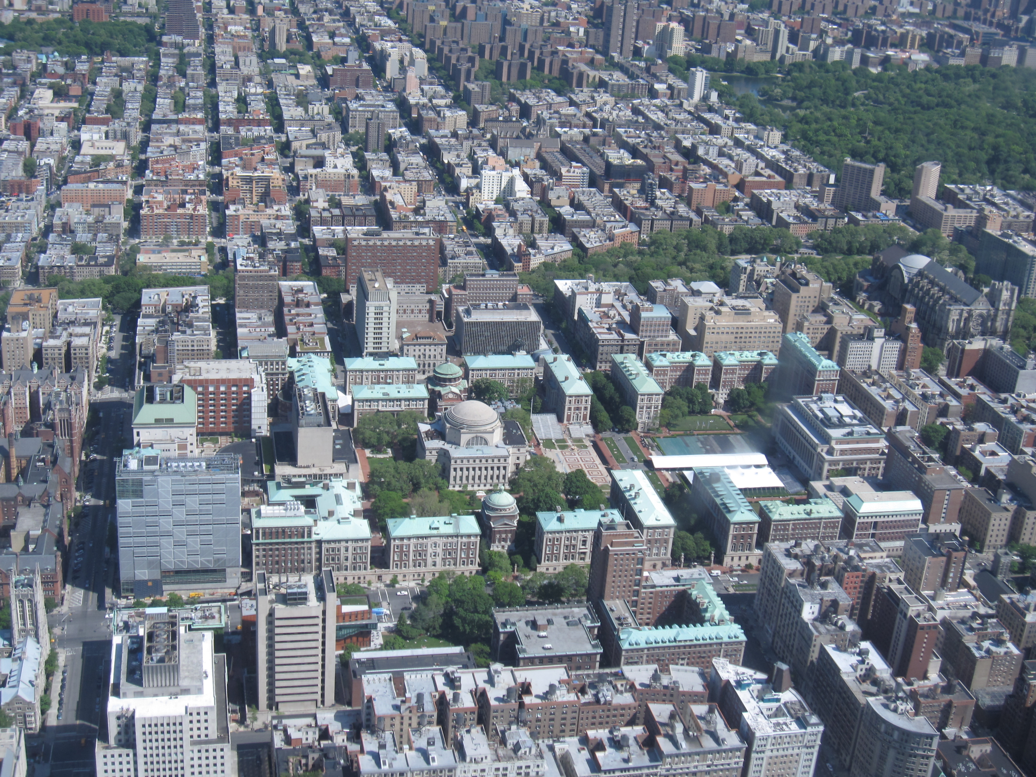 Columbia University, looking southeast